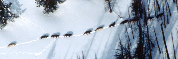 Eleven-member wolf pack in winter, Yellowstone National Park, Wyoming